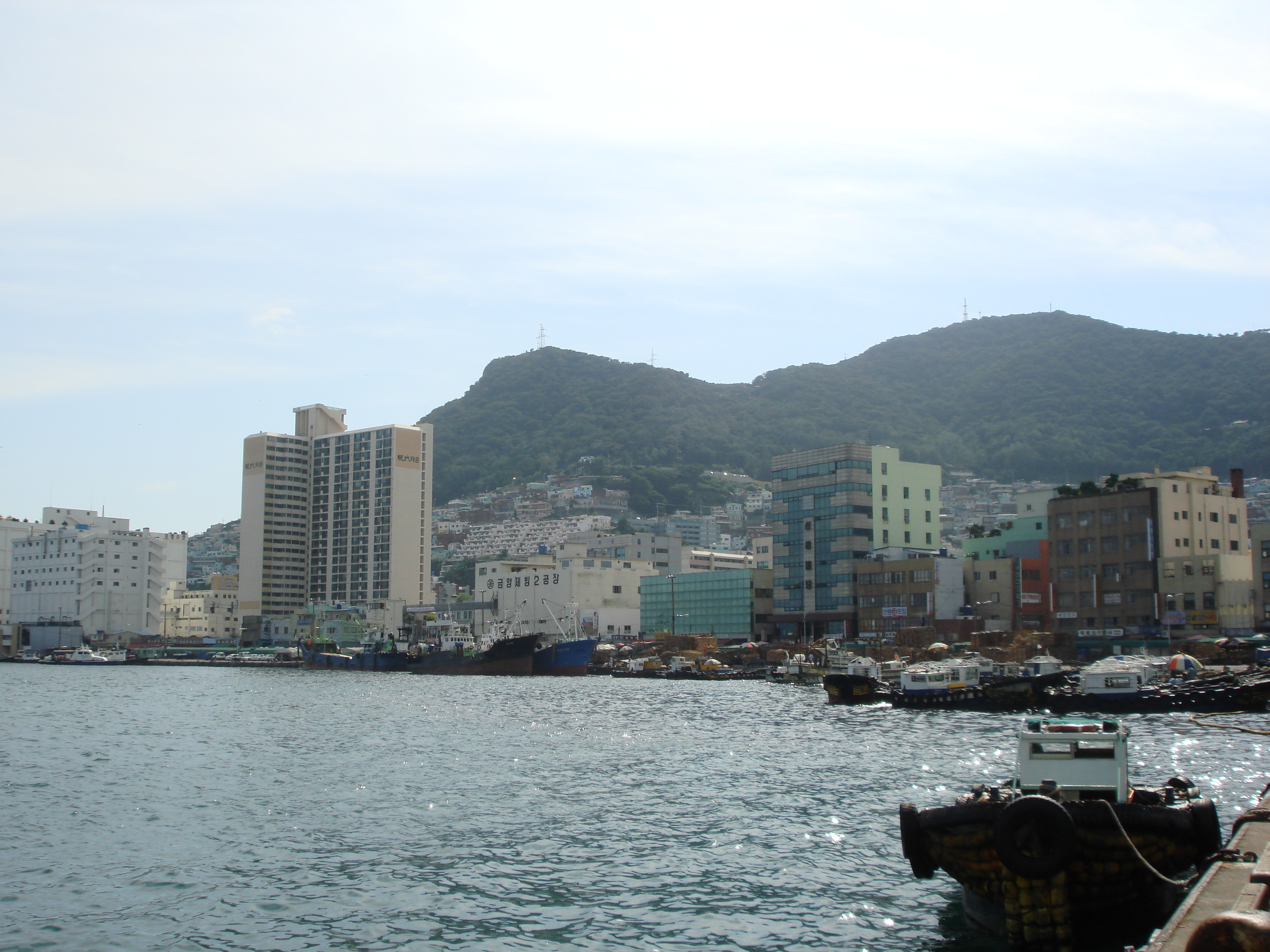 East coast of Seo-gu.